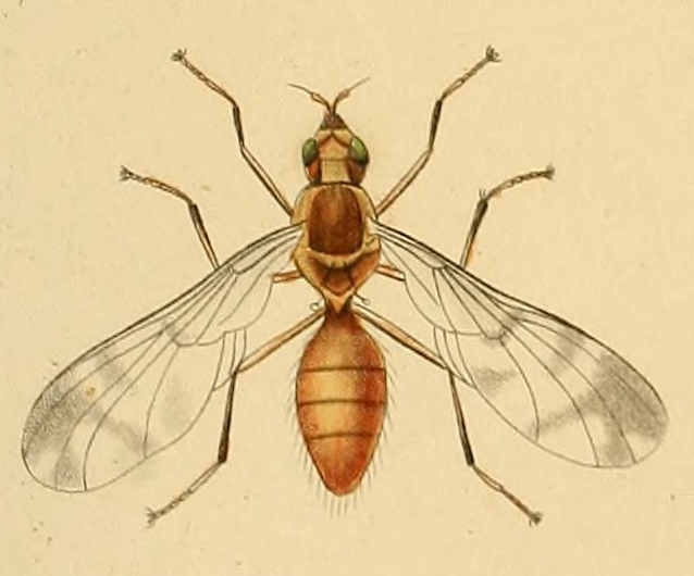 Adapsilia coarctata Waga, 1842 (Pyrgotidae) male - original drawing of original description by Antoni Stanislaw Waga